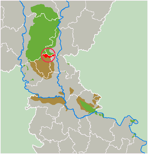 LEGEND: Green - Sands, Red - Selected Sand, Brown - Loess. Српски (ћирилица): Мапа је због потребе приказивања садржаја мала и није у потпуности прецизна. Употребљени извори су педолошке карте и мапе заштићених подручја Завода за заштиту природе, као и рад др Млађена Јовановића Пешчаре у Србији 2014, Природно-математички факултет Универзитета у Новом Саду.